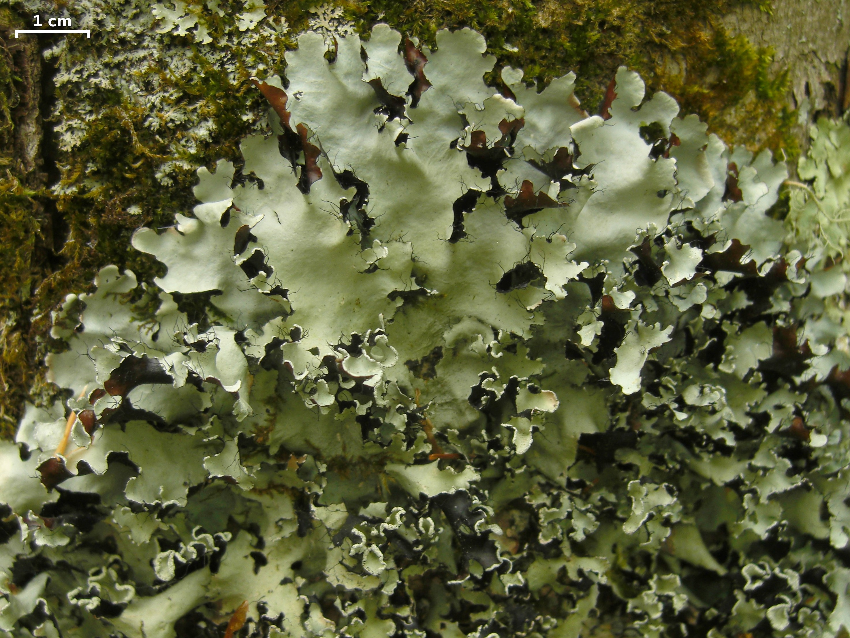 Appalachian Trail between Low Gap and Snakeden, Smokies, North Carolina border, 20110524